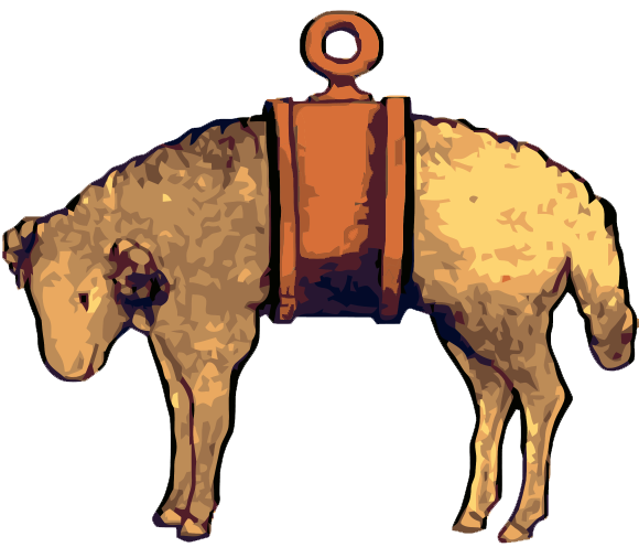 A "banded fleece" symbolising Milnrow (and formerly, Milnrow Urban District Council), in Greater Manchester, England. The emblem is eludes to Milnrow's woollen weaving heritage.